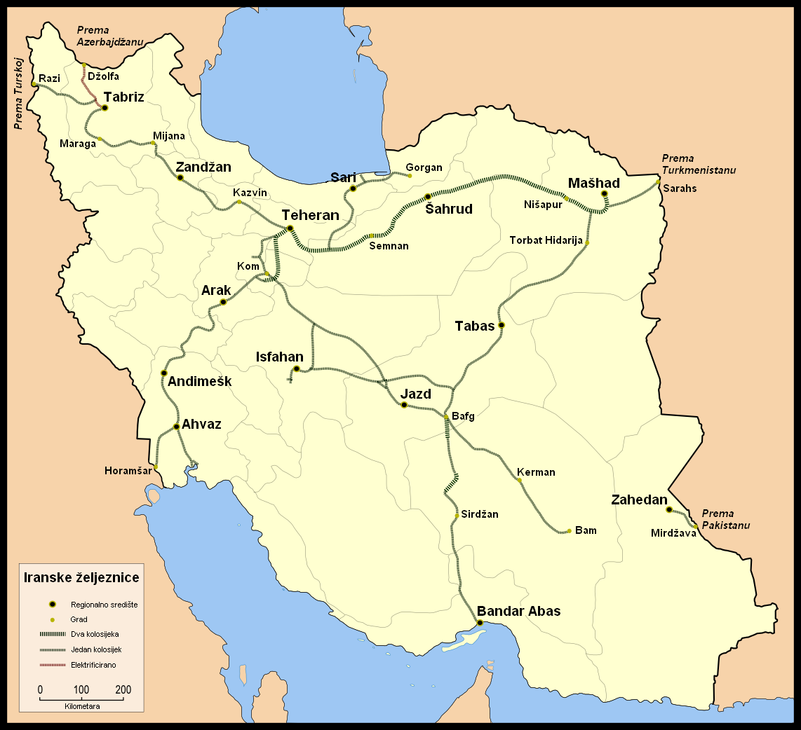 Iran railway network in 2006 (Croatian description)